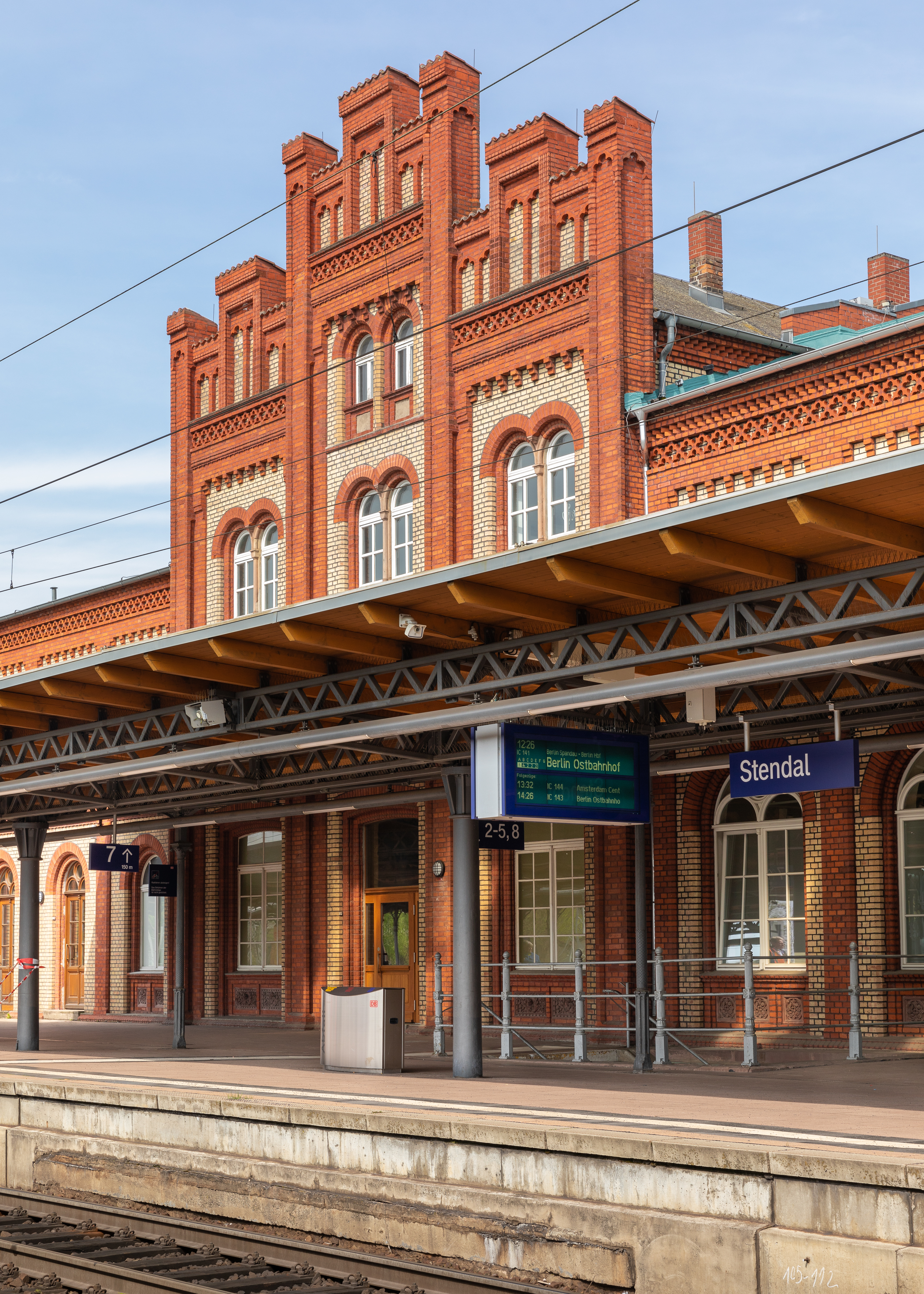 Stendal station, Saxony-Anhalt, as seen from track 3